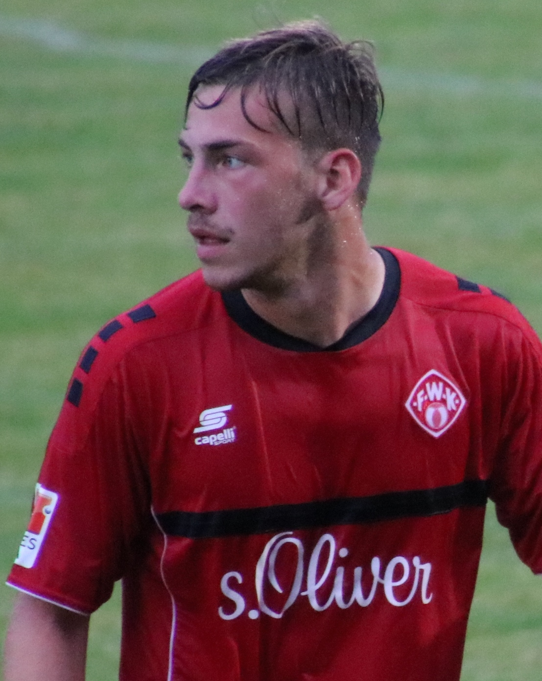 friendly match preseason